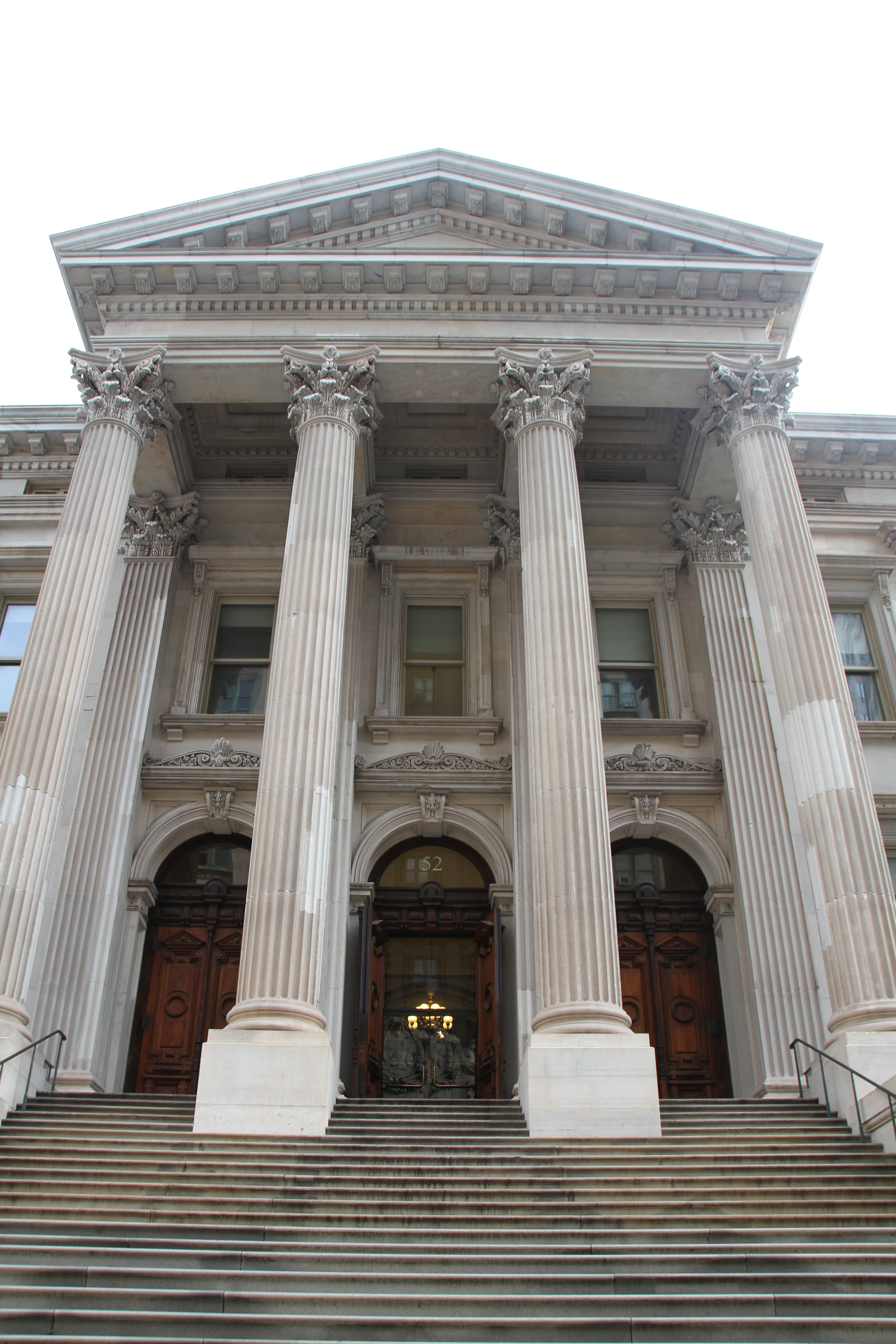 New York City, Department of education, at Chambers Street, Manhattan